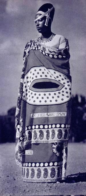 A picture of Tutsi ancient royal lady of Rwanda